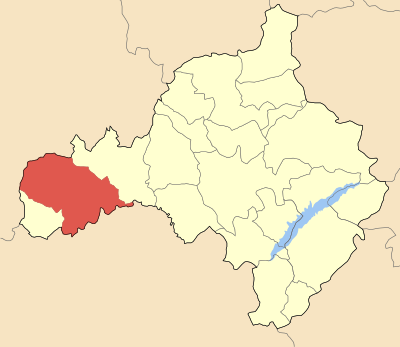 Locator map of Tsotyliou municipality (Δήμος Τσοτυλίου) at Kozani perfecture, Greece.